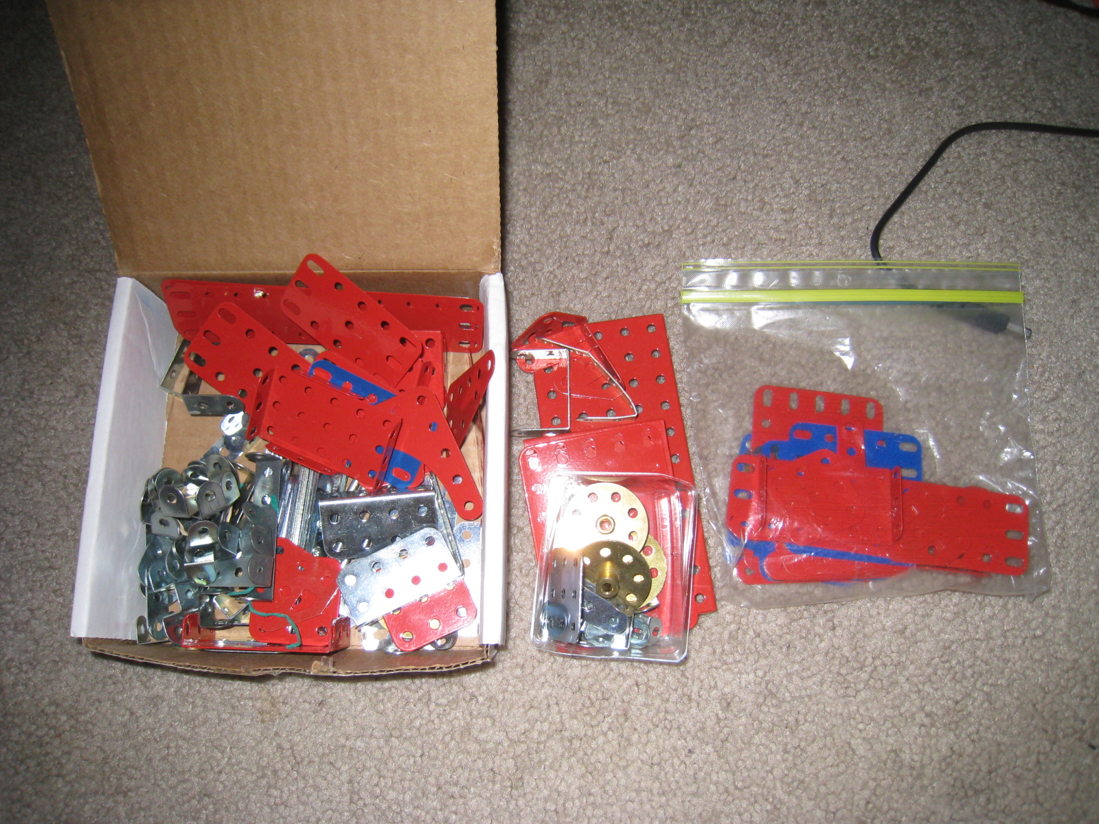 Erector Set